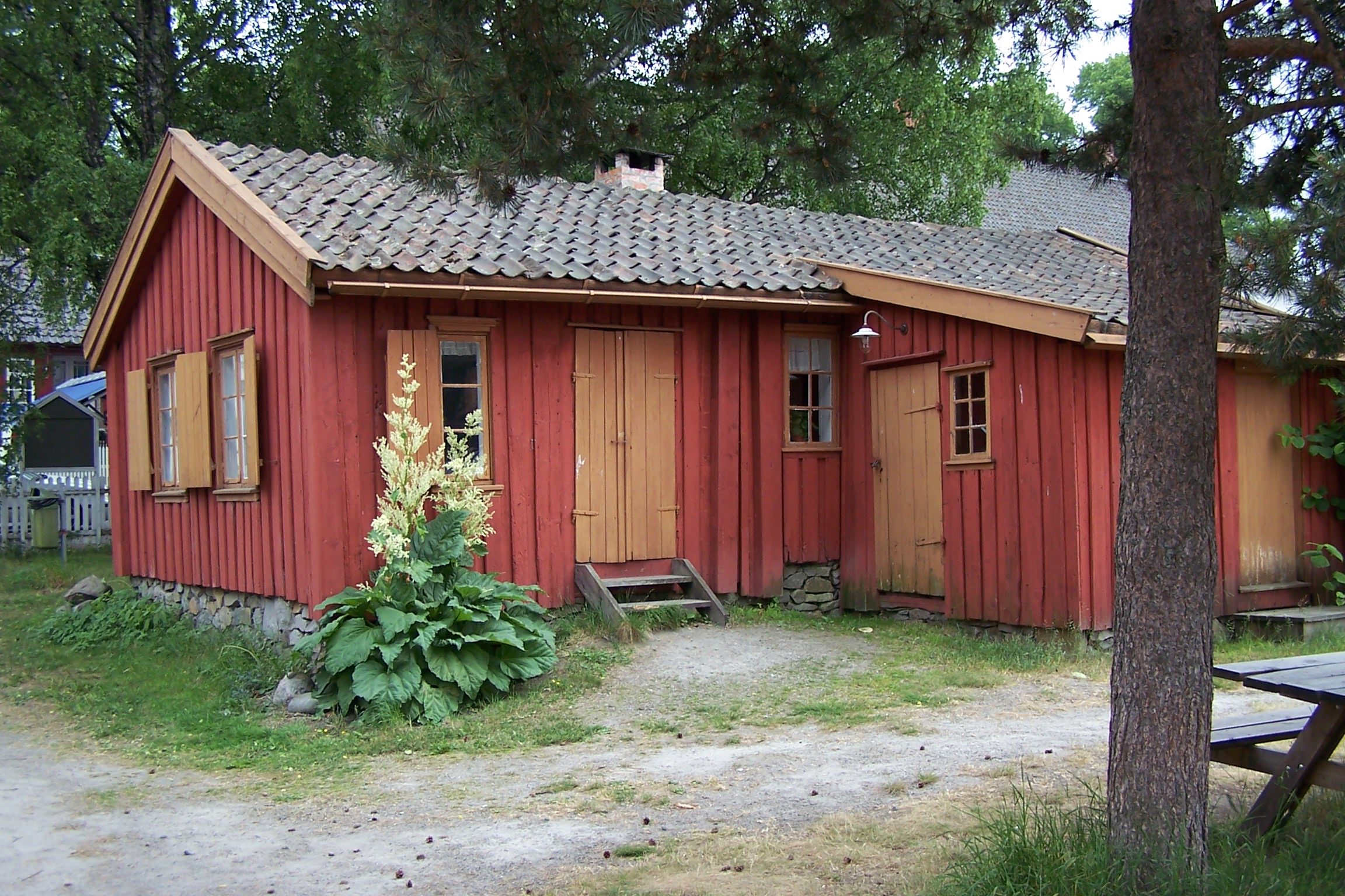 Son, Norway: Kystkultursenteret (Coastal Culture Centre), museum